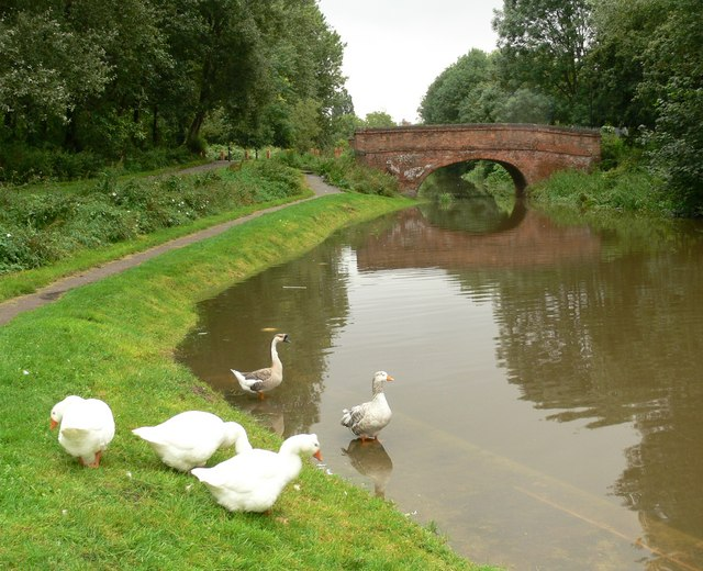 Aylestone Mill Bridge This was taken during the floods of July 2007. The Grand Union Canal is a lot higher than normal. As of February 2009, three members of this `family` of geese can still be seen in the area, always grateful for some bread.....